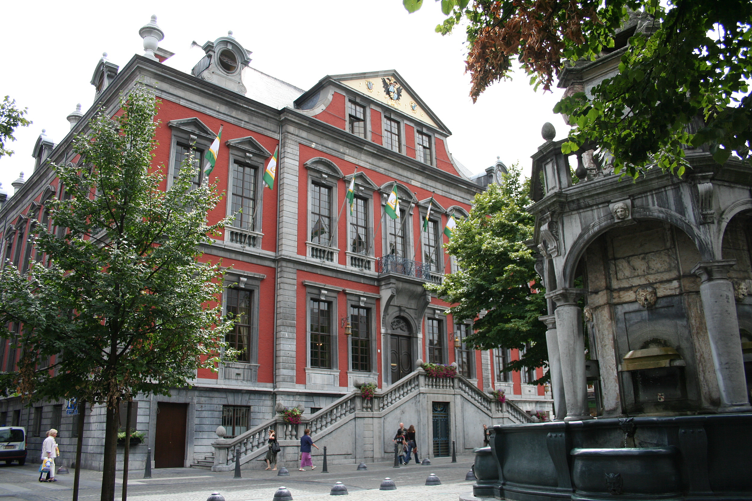 Liège (Belgium), the town hall (1714).